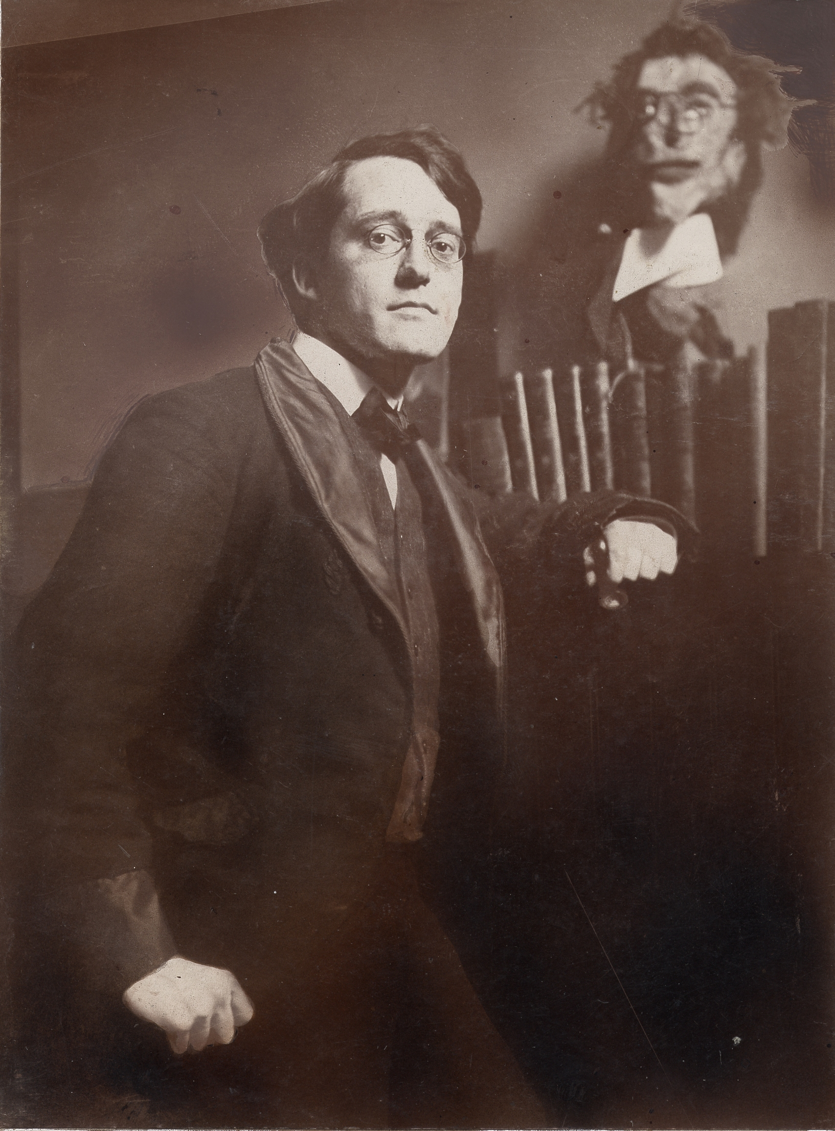 John French Sloan (1871-1951), American urban landscape painter